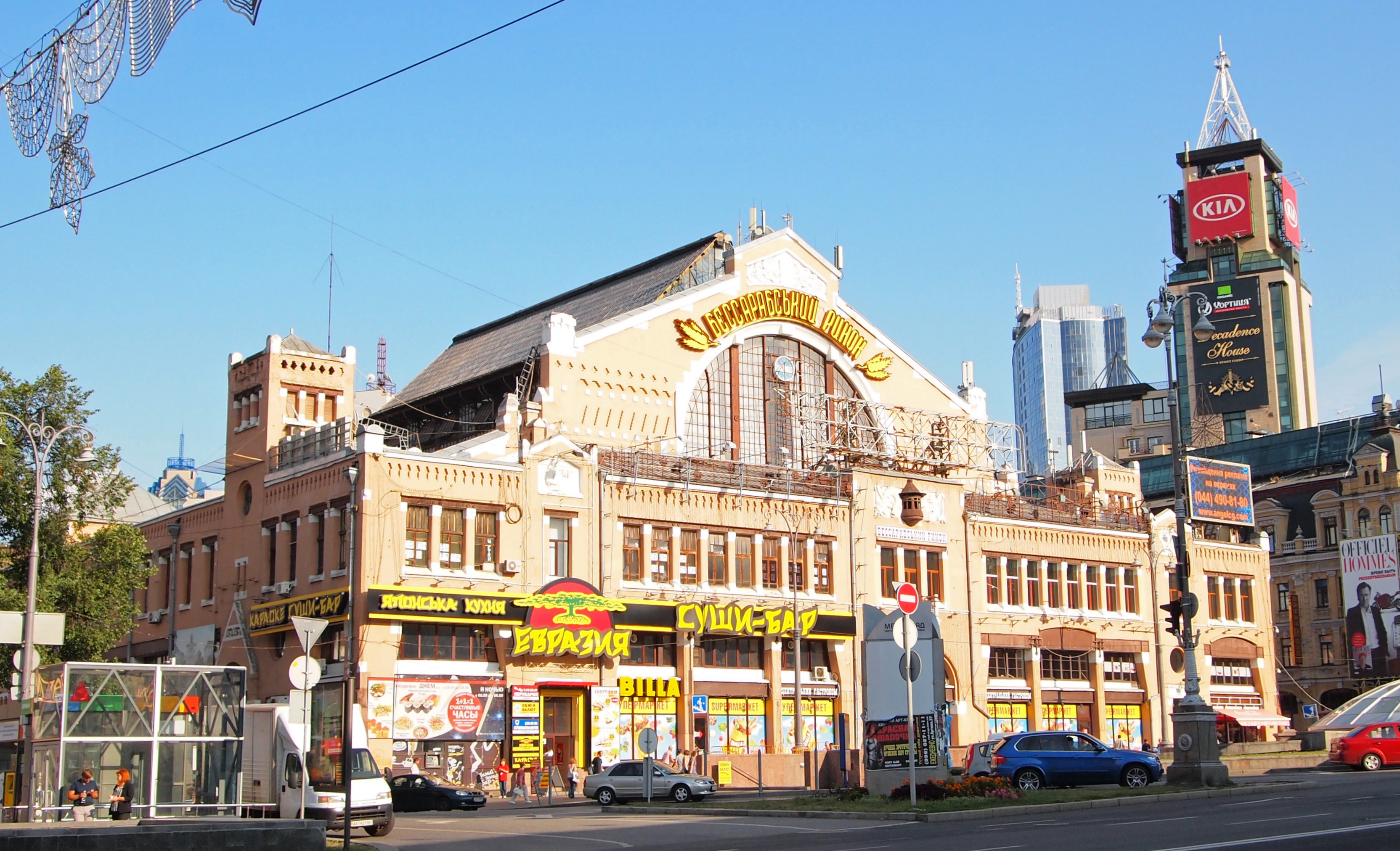 Besarabsky Market in Kiev. This photograph was taken with an Olympus E-PL1